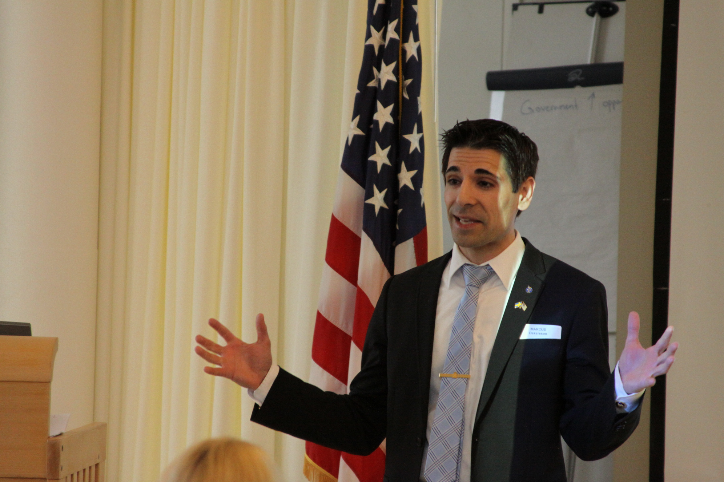 Marcus Oscarsson, Swedish Correspondent for the London Times speaks on the idea of speaking plainly in public positions.